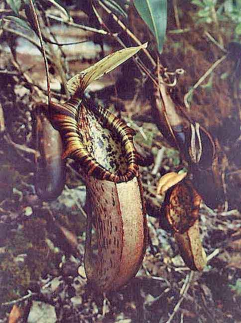 Typical upper pitcher of Nepenthes northiana